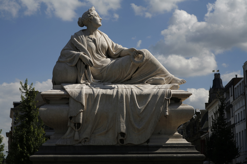 monument